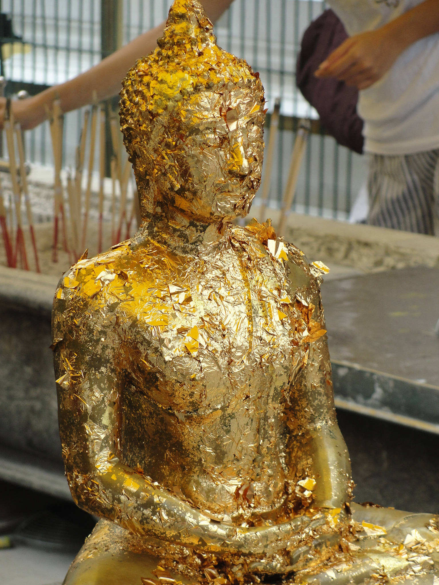 A statue of Buddha at the territory of the Royal Palace Complex in Bangkok. This statue is covered with thin sheets of gold which are attached by prayers as their donation.